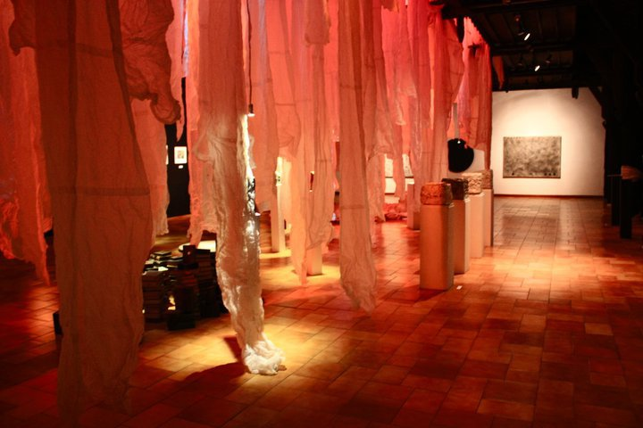 Taken at the Jagat Kertas, a solo exhibition by Setiawan Sabana, Bentara Budaya Jakarta 10-19 May 2011